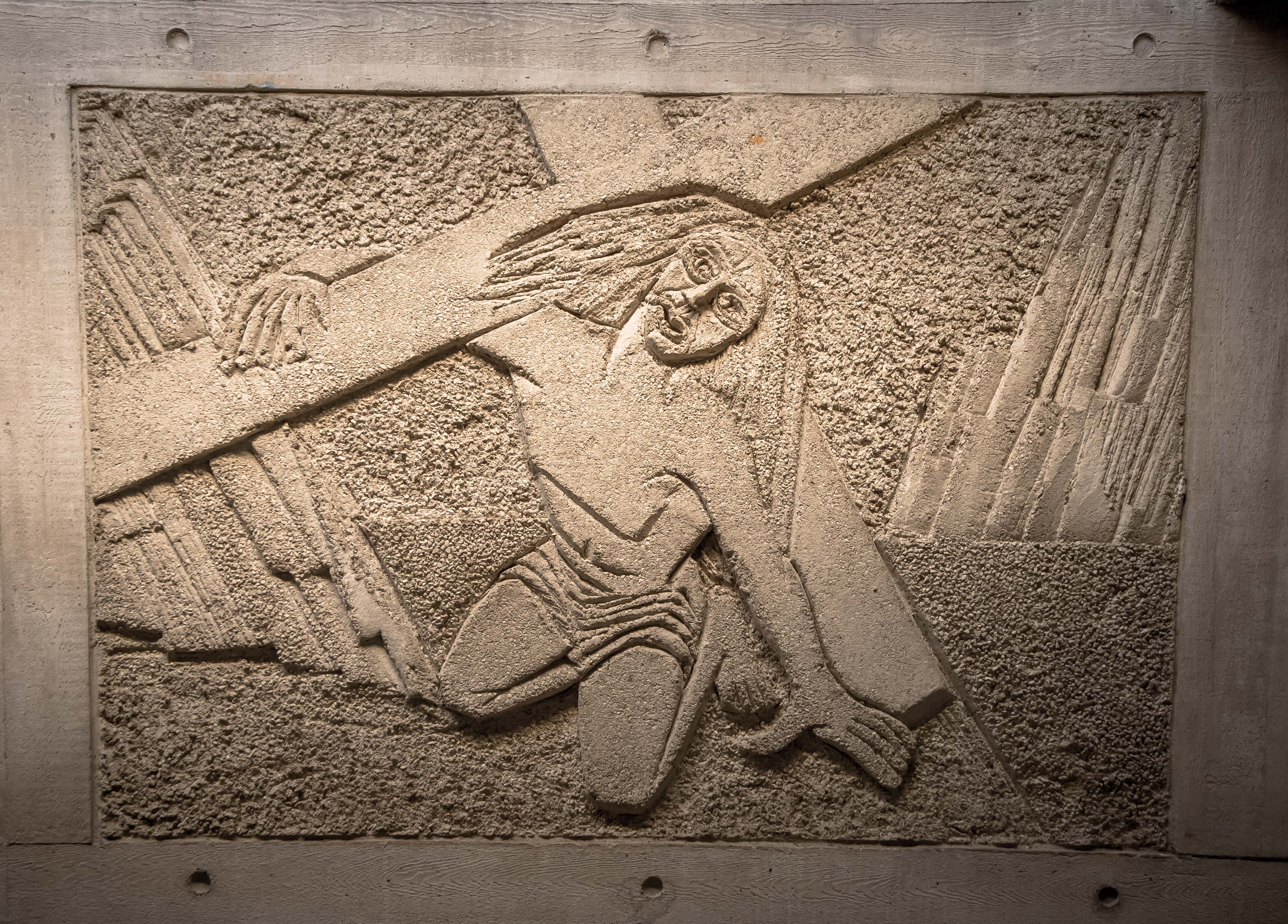 Stations of the Cross by William Mitchell in Clifton Cathedral, Bristol.